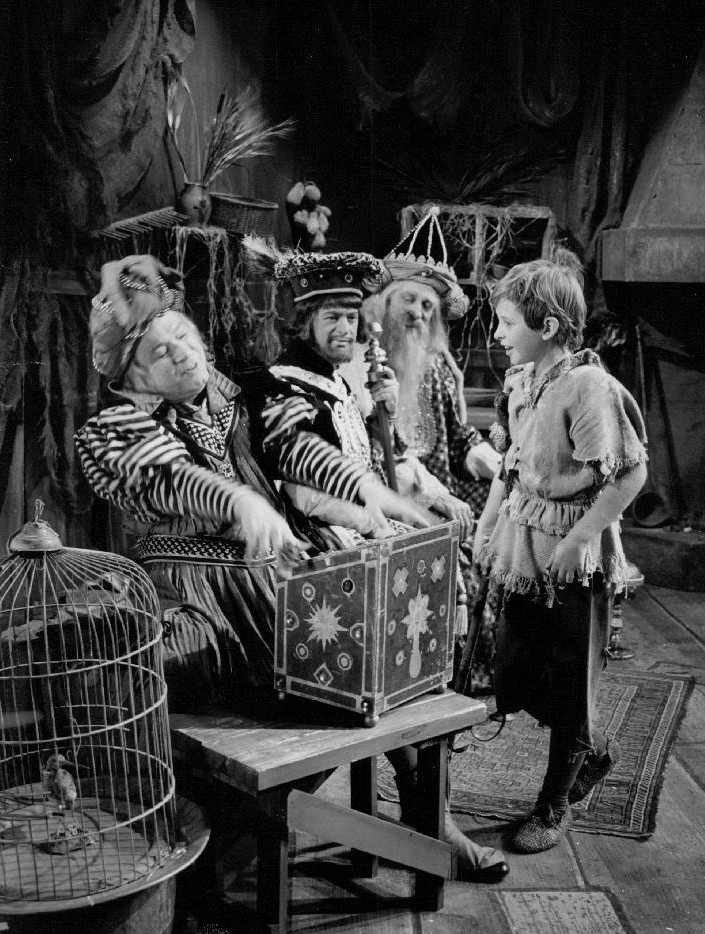 Photo of the Three Kings and Amahl from the opera Amahl and the Night Visitors. The kings are, from left-Andrew McKinley, Leon Lishner and David Aiken. Kirk Jordan is Amahl. The opera was performed from 1951 to 1966 annually on NBC television as part of its Christmas programming. By 1963, the performance changed from being live to on tape. This is the 1958 presentation, which was done live.